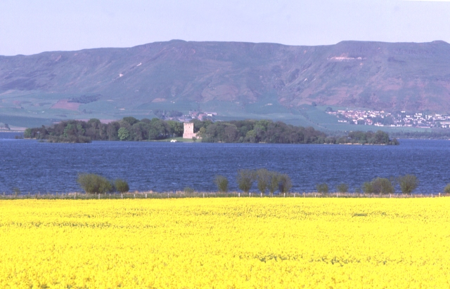 Loch Leven (Fife/Kinross, Scotland) Looking across fields of oilseed rape to Loch Leven Castle, the island fortress where Mary Queen of Scots was imprisoned in 1566/7.